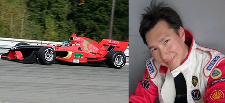 Denis Lian